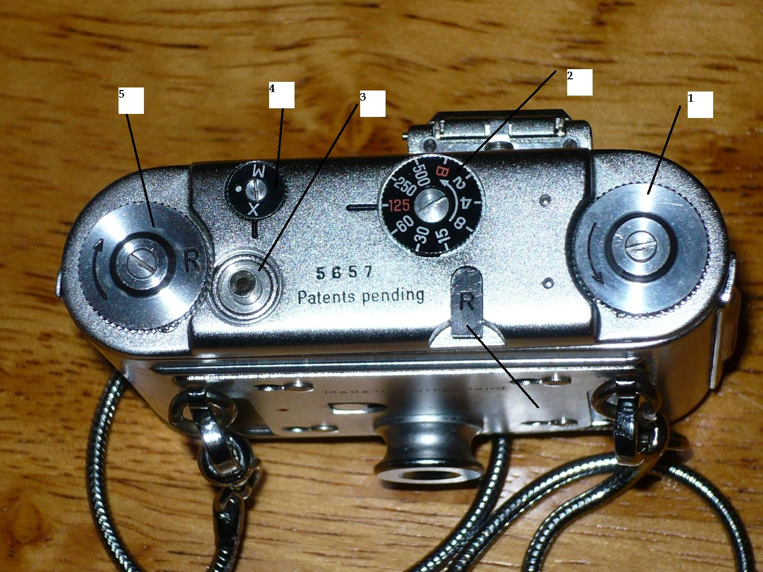 Tessina 35 bottom controls: 1)Film advance 2)shutter speed dial 3)Flash sync 4) M bulb,X ELECTRONIC 5) Film rewind knob 6)Film rewind lock